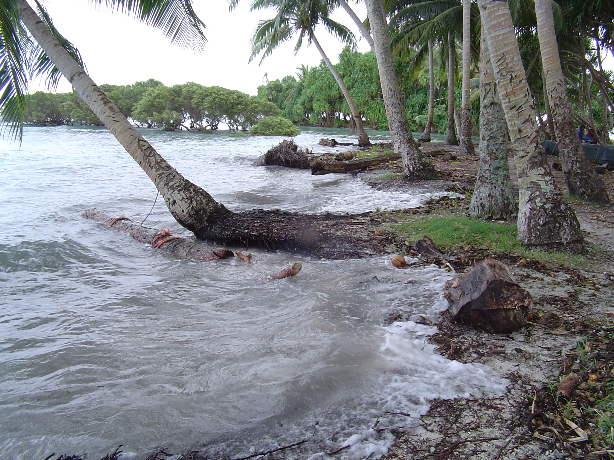 High tide at Nukutoa island, Takuu Atoll, Papua New Guinea, a Polynesian outlier island. Island is slowly sinking as sea levels rise.